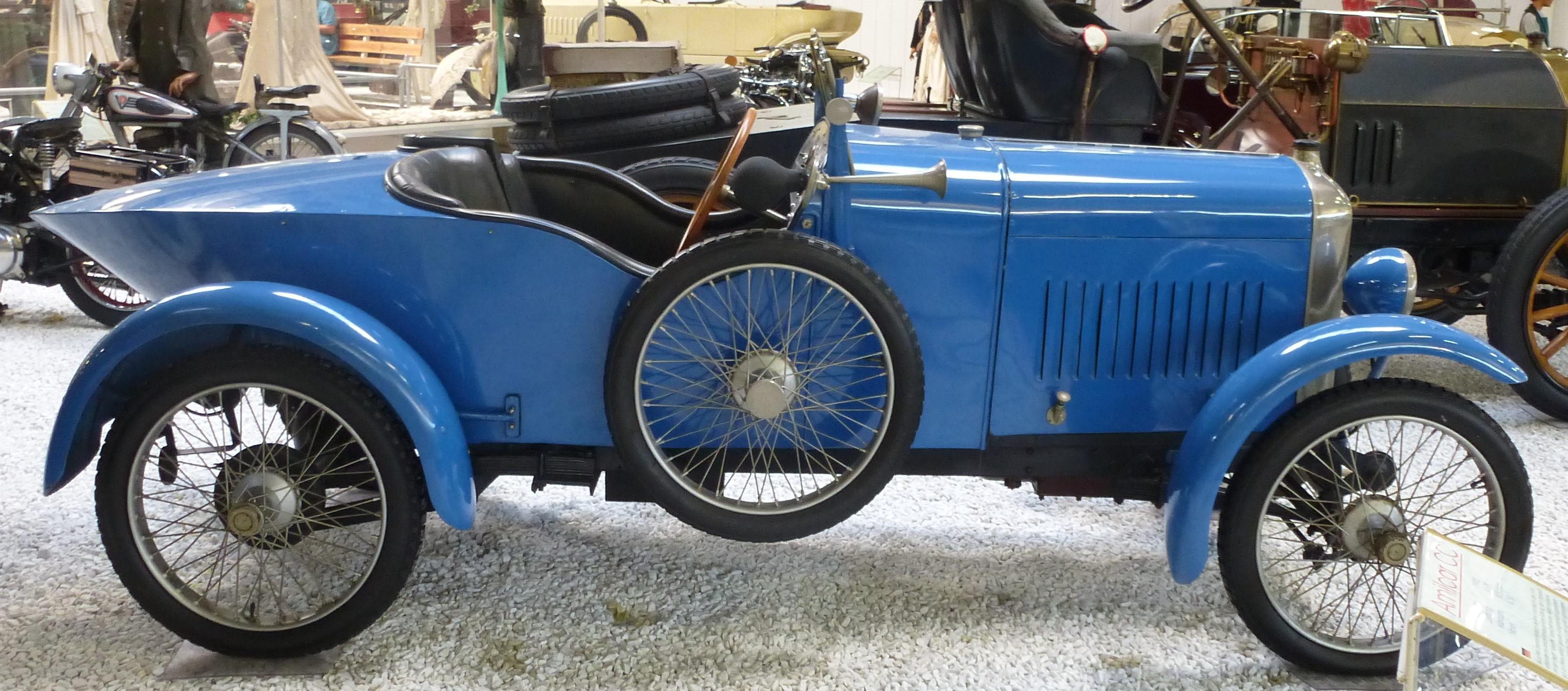 Amilcar Type CC Roadster 1921-1922